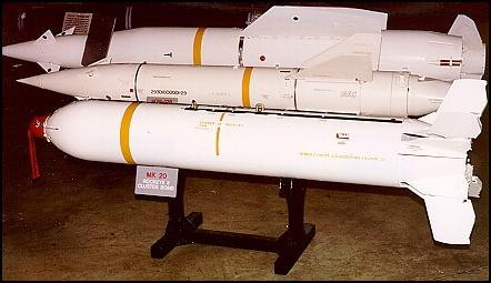 from nearest to farthest, CBU-99, AGM-12B and AGM-12C.